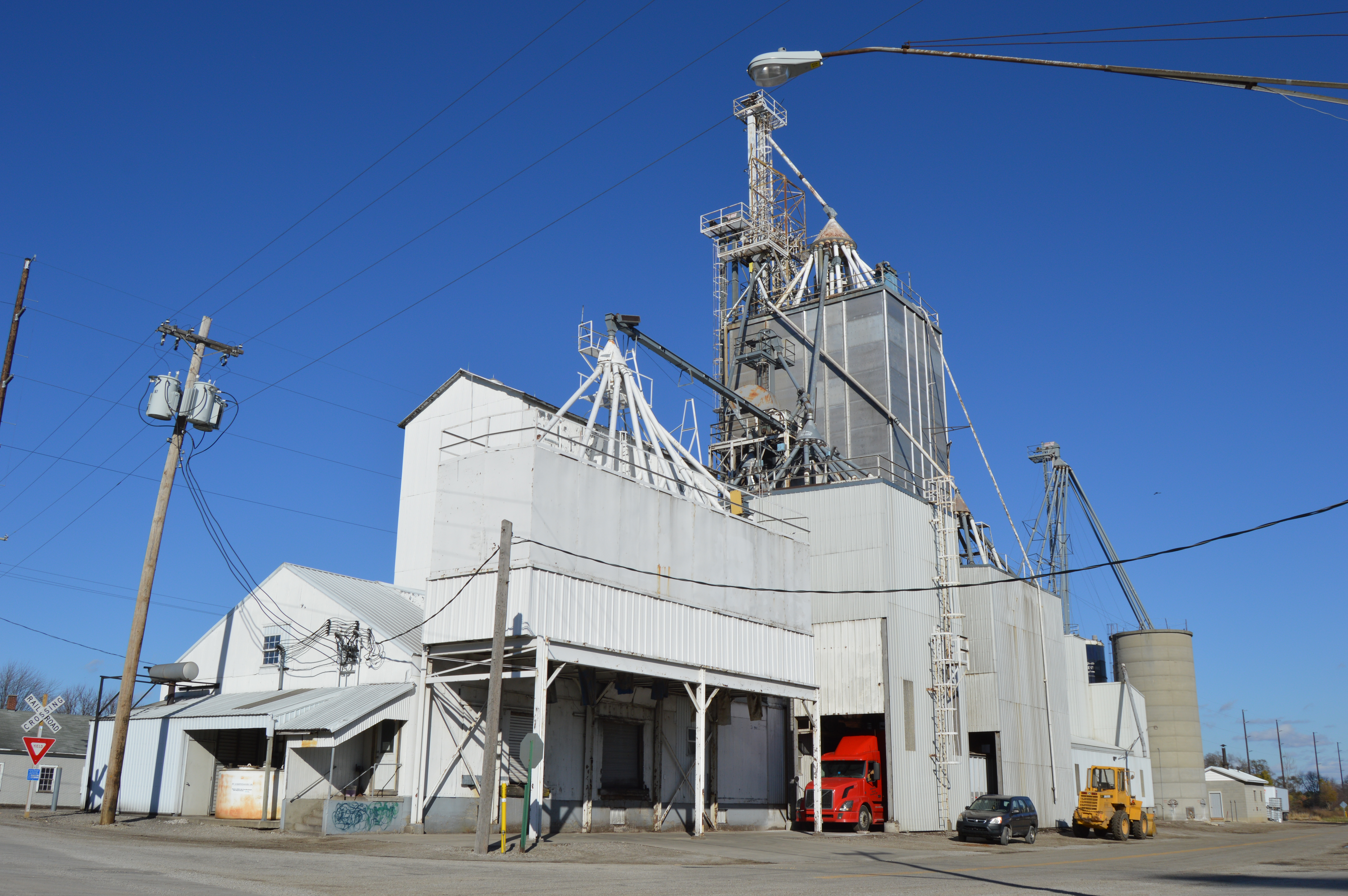 Western and southern sides of the Republic Mills grain elevator at the intersection of Roads M-1 and 17-D in Okolona, Ohio, United States.